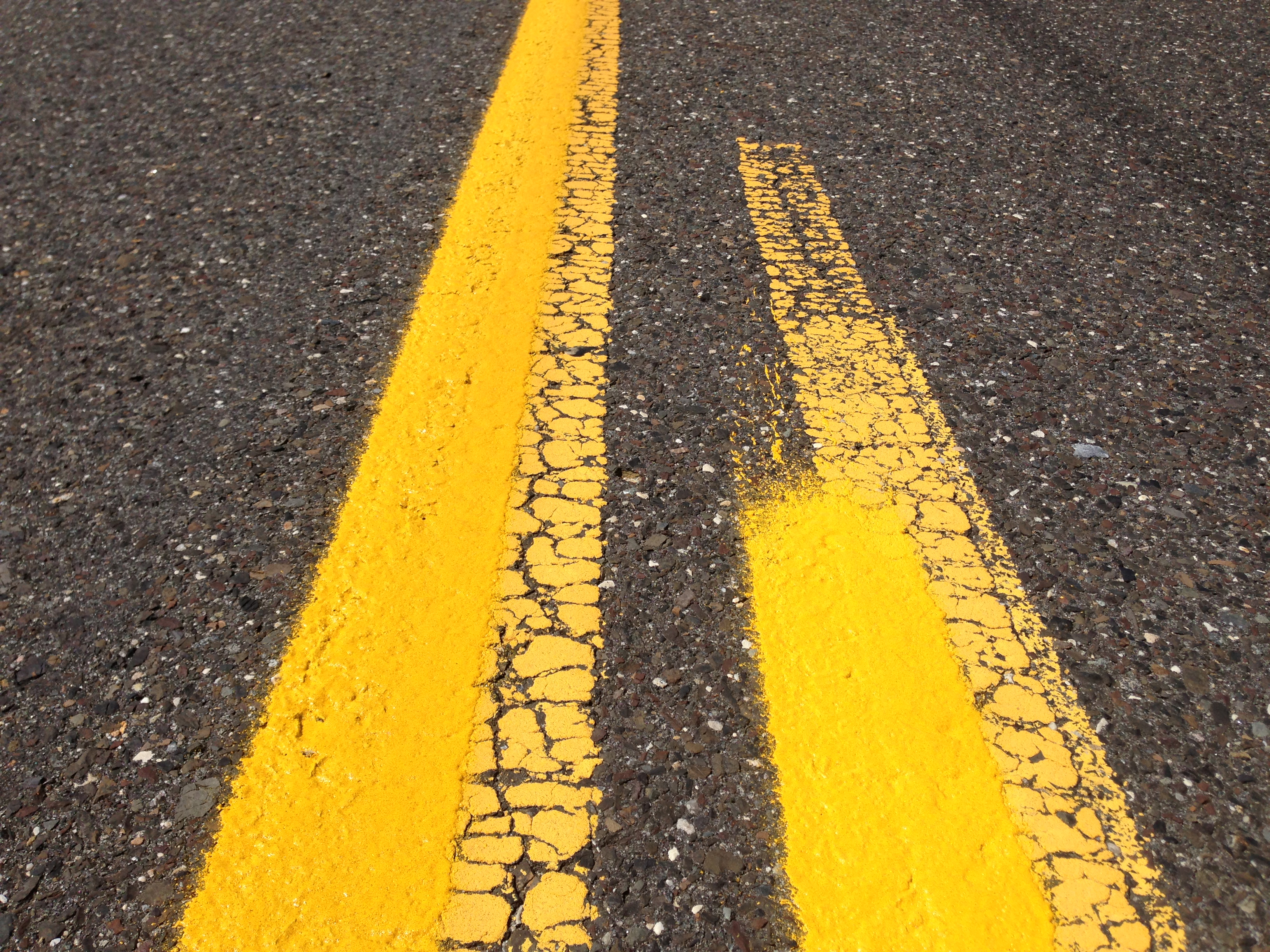 Fresh yellow road paint laid on top of old and weather white road paint on Tabernacle-Chatsworth Road (Burlington County Route 532) in Woodland Township, New Jersey